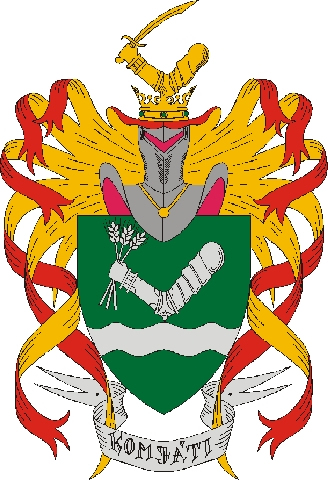 Coat of arms of Komjáti, Hungary